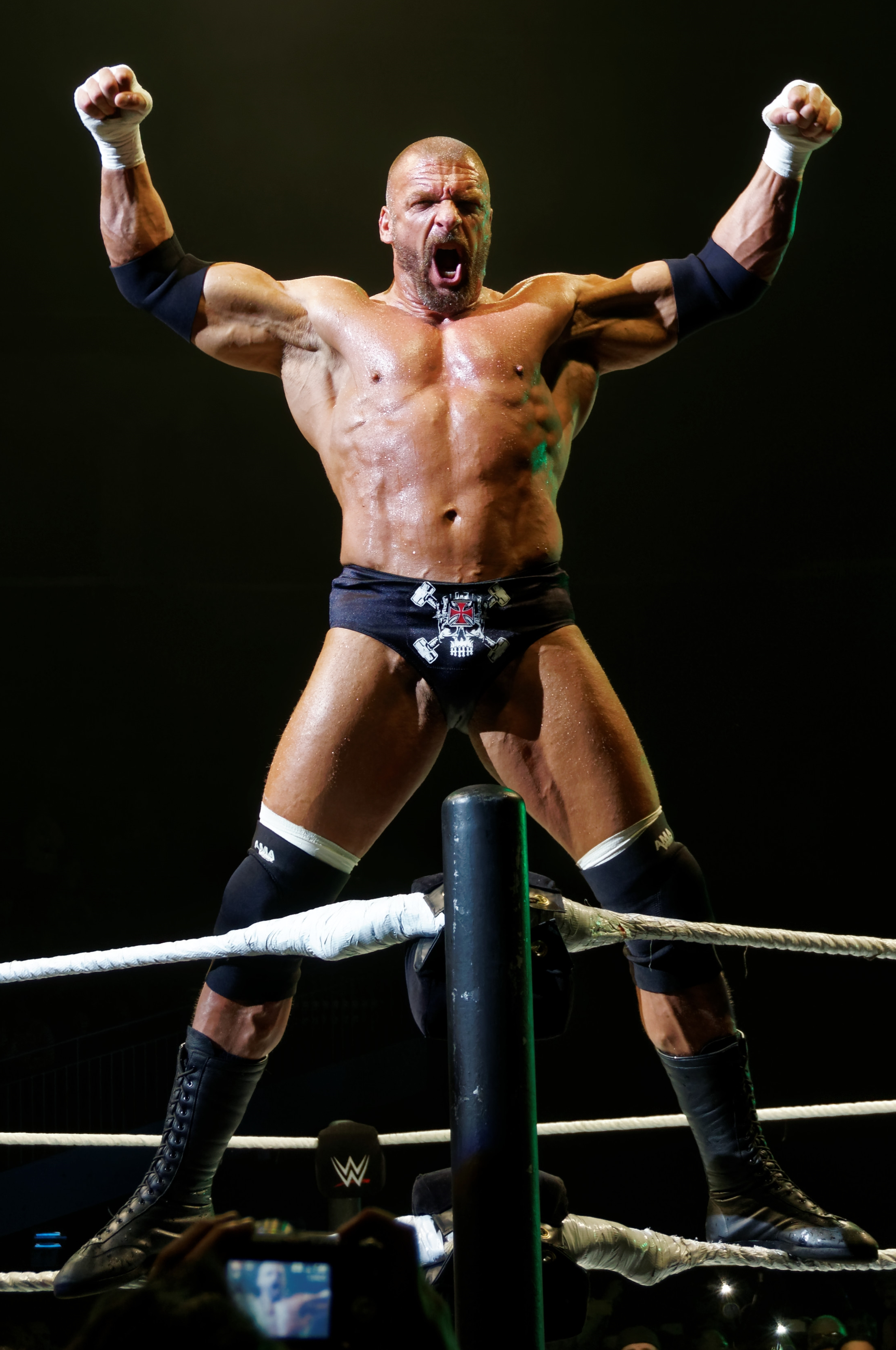 Triple H in April 2016